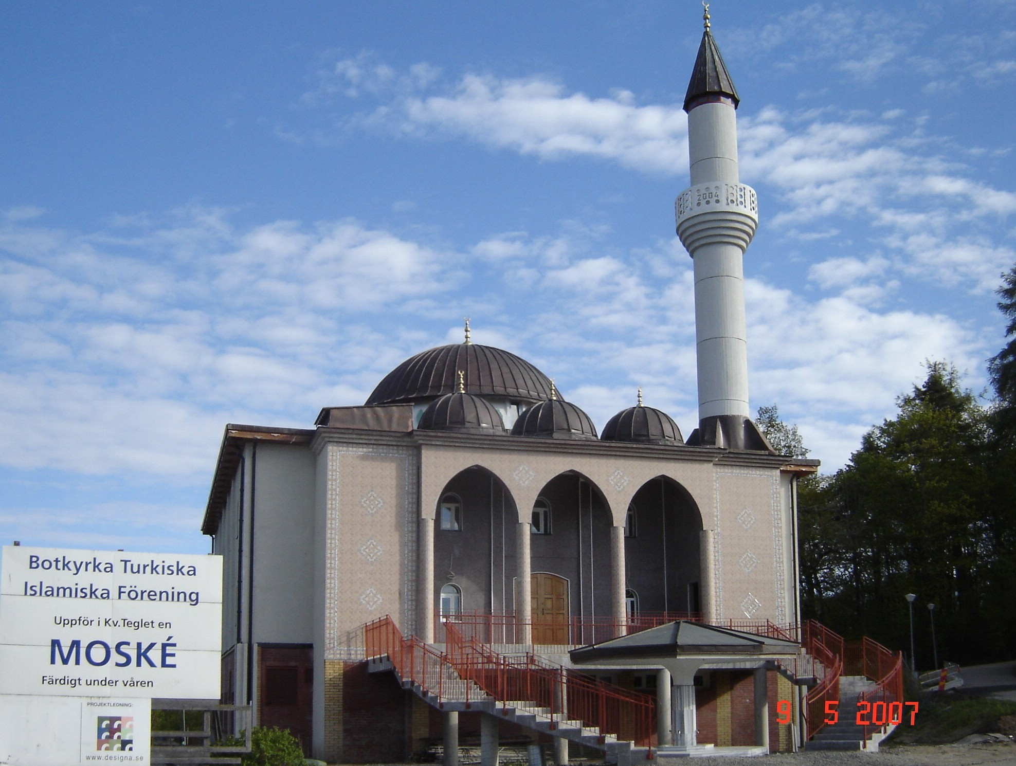 Mosque of Fittja, south of Stockholm